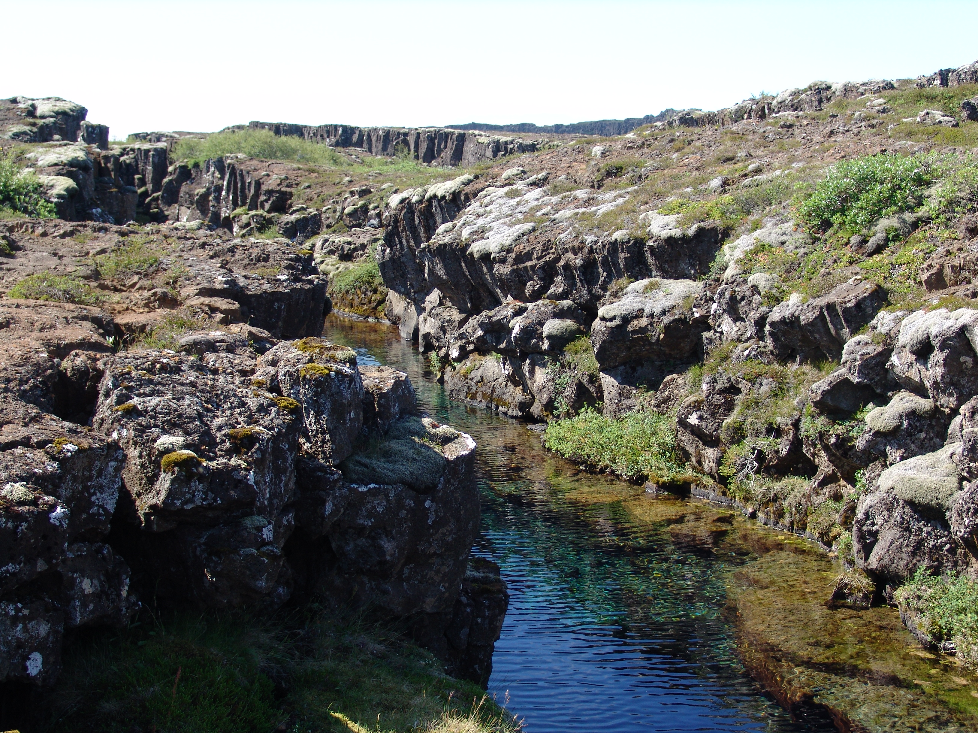 Riss durch Island; Þingvellir national park, Iceland